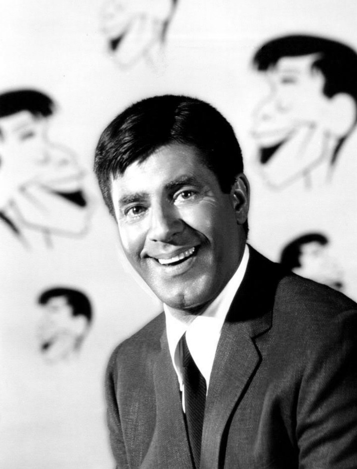 Publicity photo of Jerry Lewis when he was guest-hosting The Tonight Show for Johnny Carson.